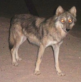 An arabian wolf (Canis lupus arabs) in southern Israel (the southern Arava desert). It has been scavanging alone that night.